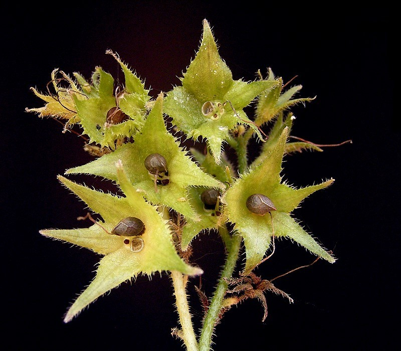 Symphytum officinale